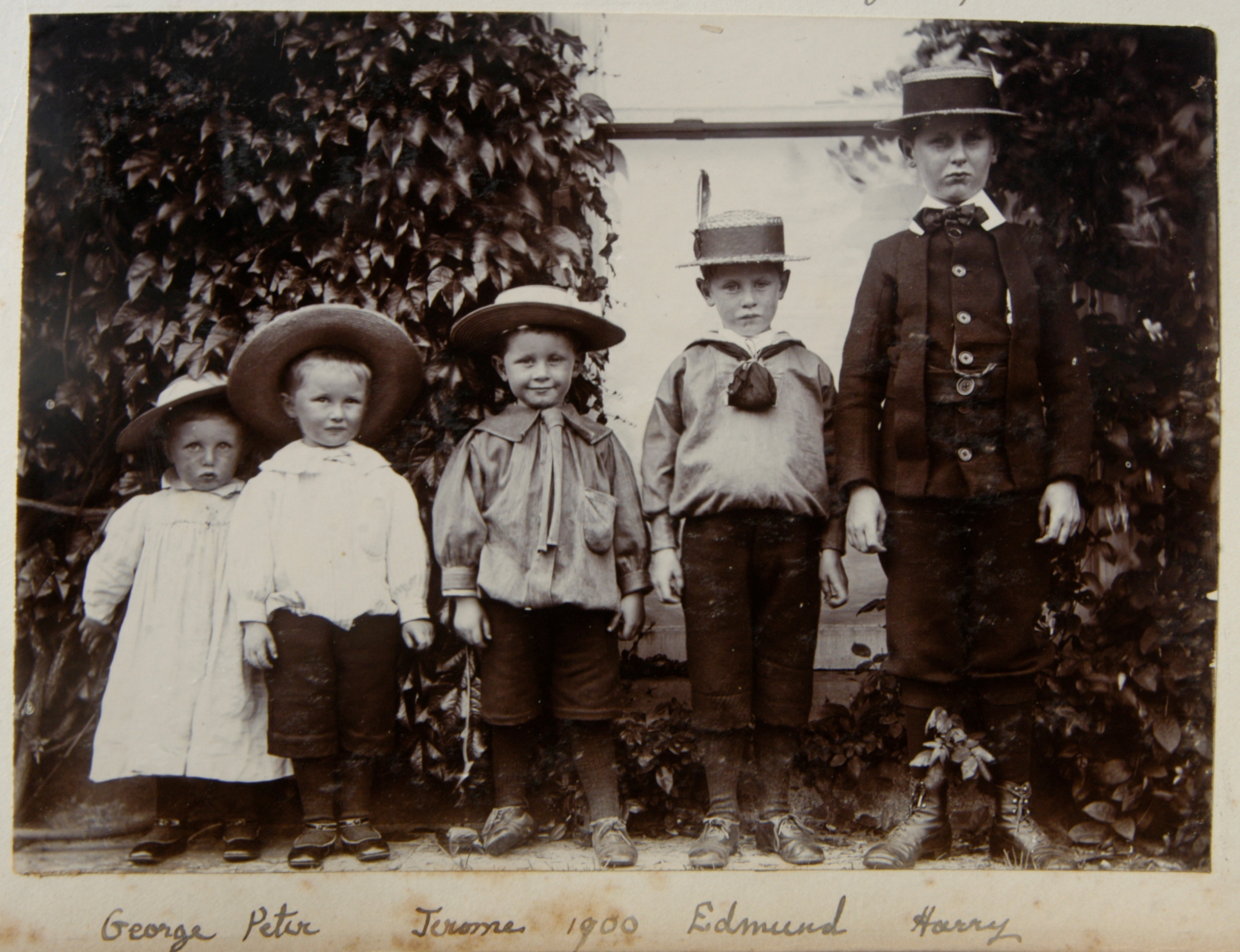 Photograph (by me, R. de Salis, Rodolph (talk) 11:04, 12 August 2015 (UTC)) of a photograph George, Peter, Jerome, Edmund and Harry, at Dawley Court, the elder sons of Cecil Fane De Salis in 1900.